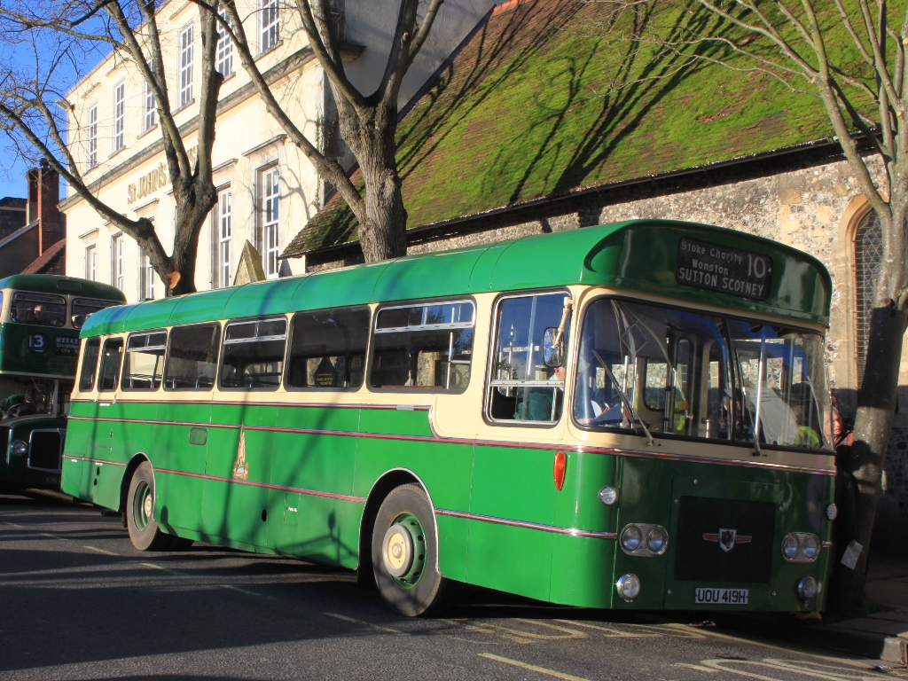 A King Alfred Leyland Panther, UOU 419H, in the Broadway during the annual New Year's Day free heritage bus service in Winchester, Hampshire.